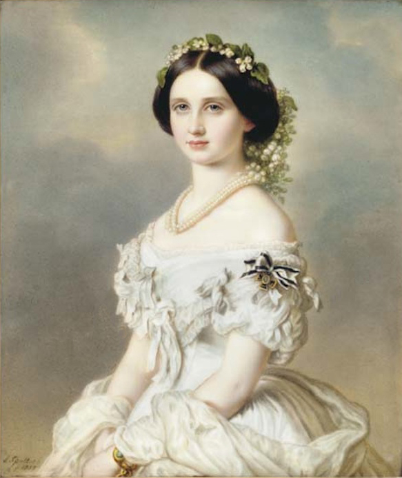 Louise of Prussia, Grand Duchess of Baden (1838–1923)